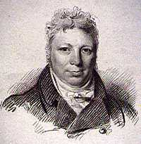 Lawrence Parsons, 2nd Earl of Rosse (May 21, 1758-February 24, 1841), known as Sir Lawrence Parsons, 5th Baronet, from 1791 to 1807, was an Irish peer.